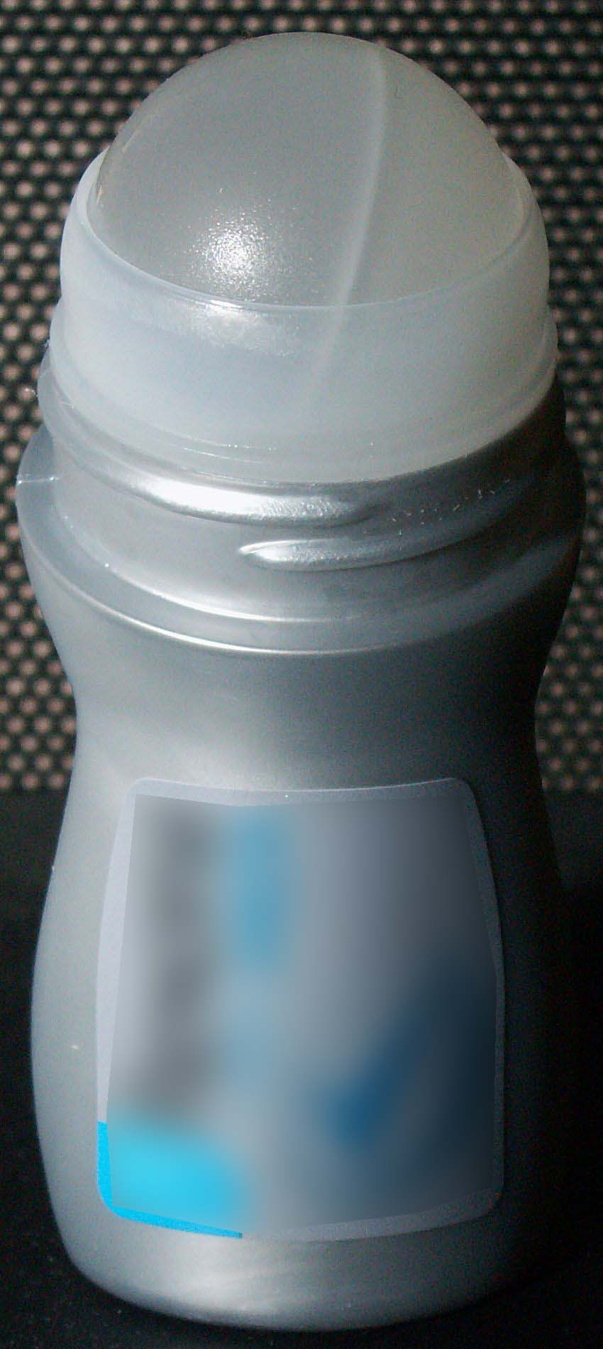 The same as Deoroller_DB.jpg but the commercial name and symbols have been offuscated by blurring with Photoshop. As the original is PD, this is also PD.